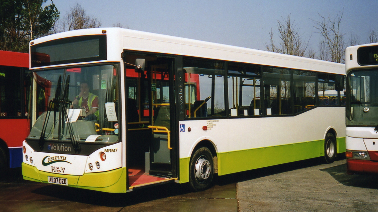 Countryliner's MRM7 at the 2007 Cobham bus rally at Longcross